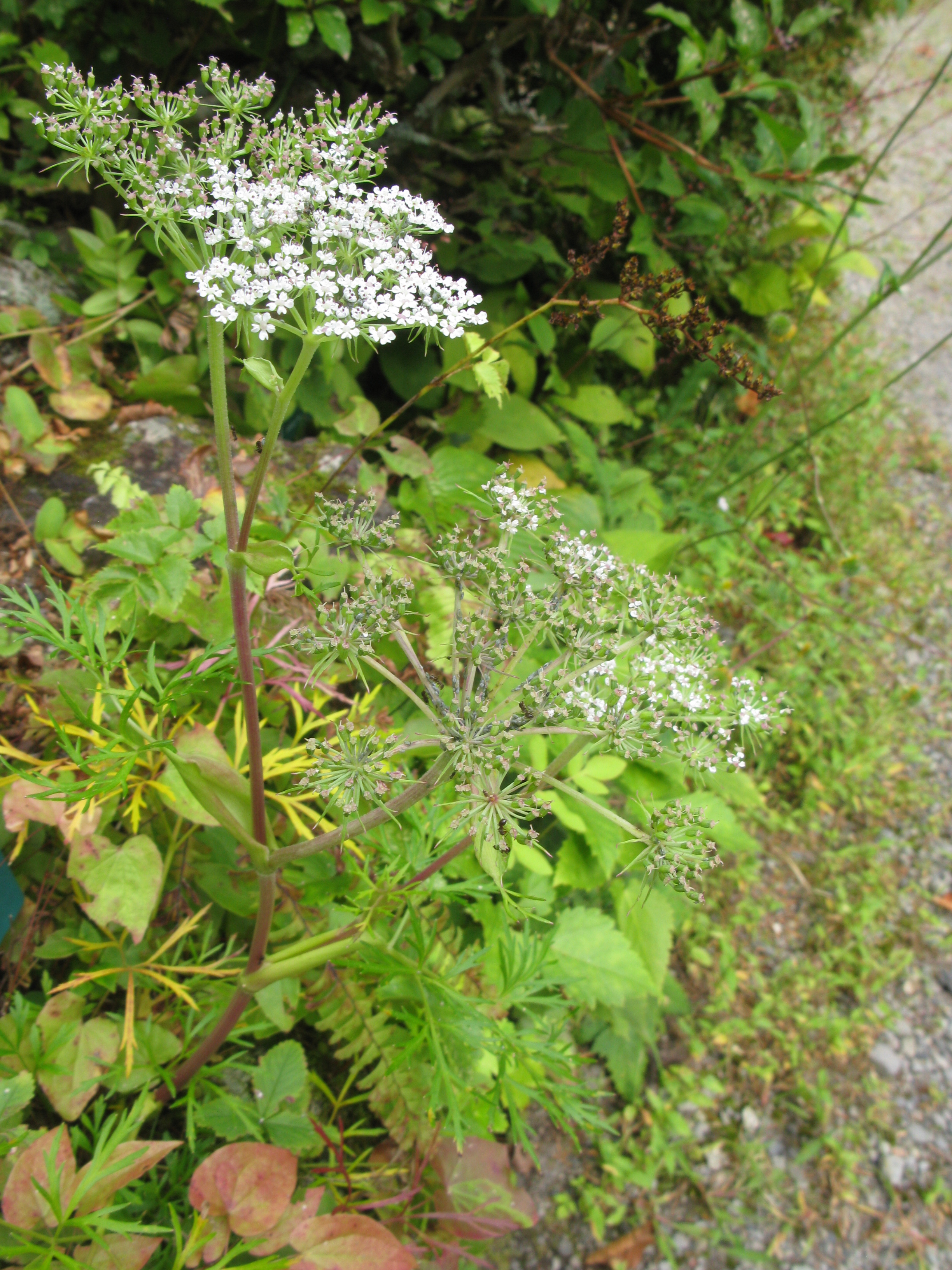 Angelica ubatakensis, Botanical Gardens, Nikko, Graduate School of Science, The University of Tokyo, Tochigi pref., Japan